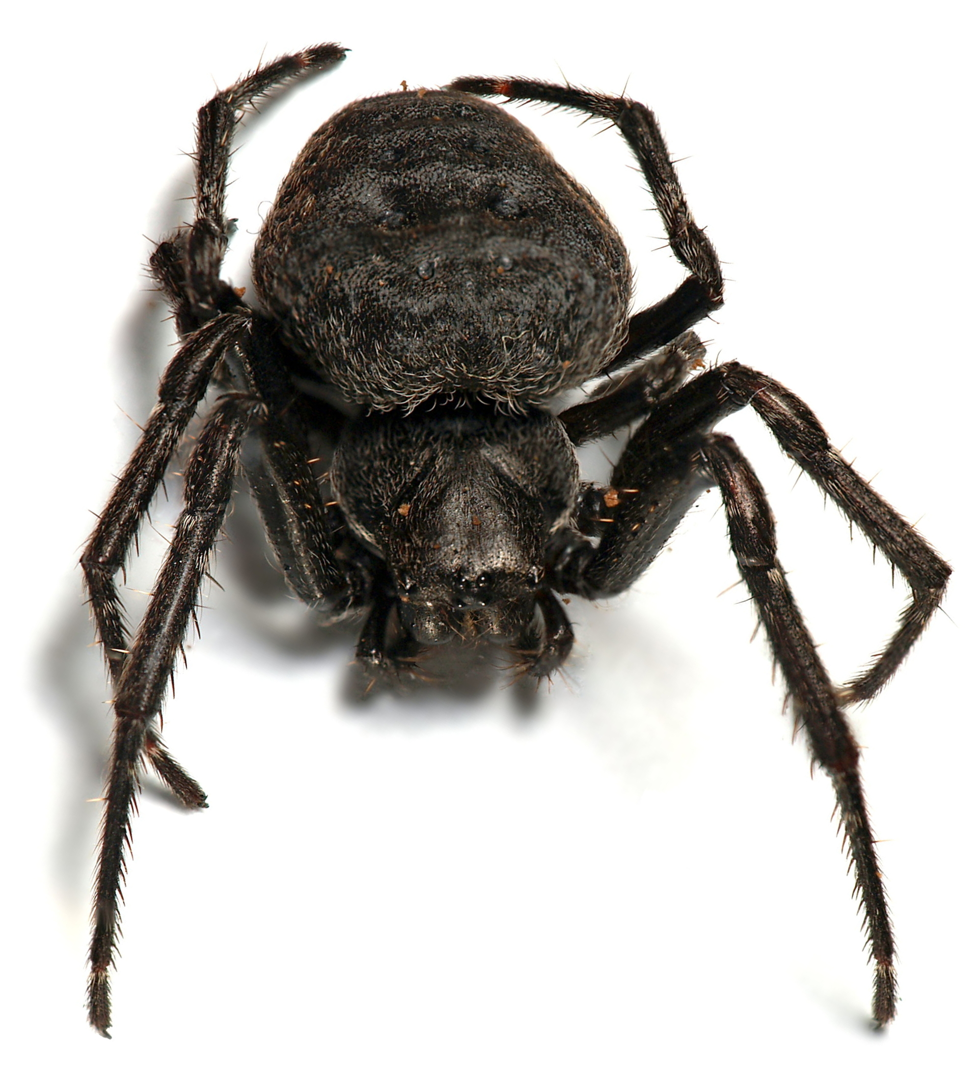 live Nuctenea umbratica from Cologne, Germany. Combined from 8 pictures with CombineZM (do_stack). Its right front leg tip is replaced because it was missing in the image.